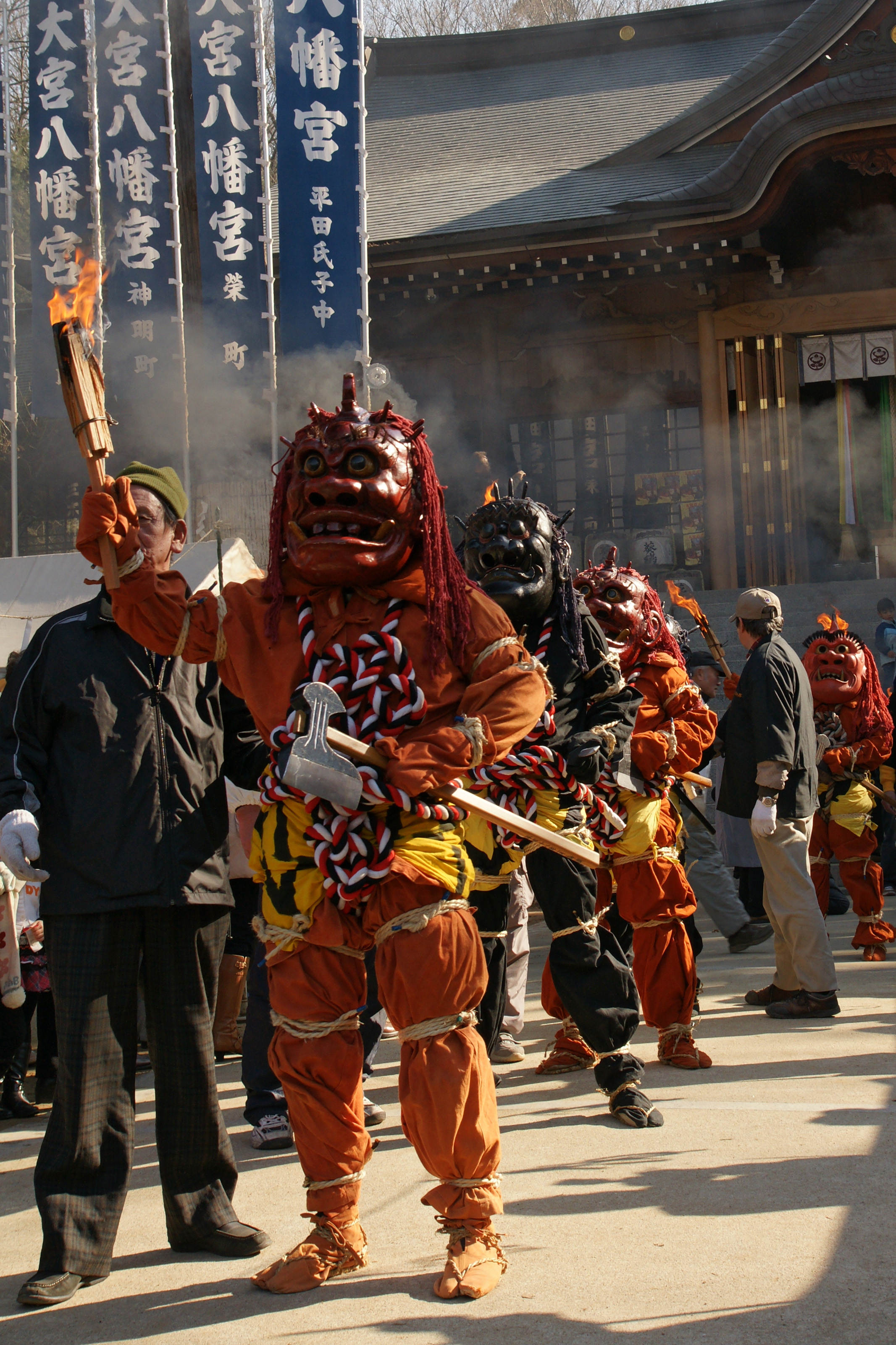 Oni-oi Shiki in Omiya-Hachimangu, Miki, Hyogo prefecture, Japan